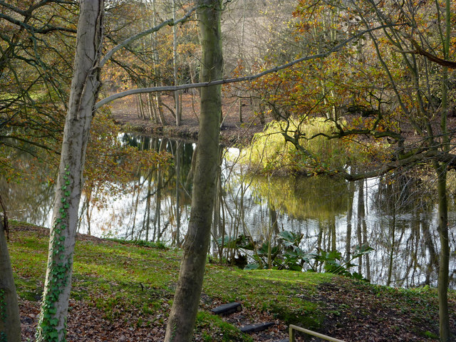 Fishpond at Holbrook Gardens Seen from the lane to Holbrook which passes between this fishpond and the larger lake to the north.